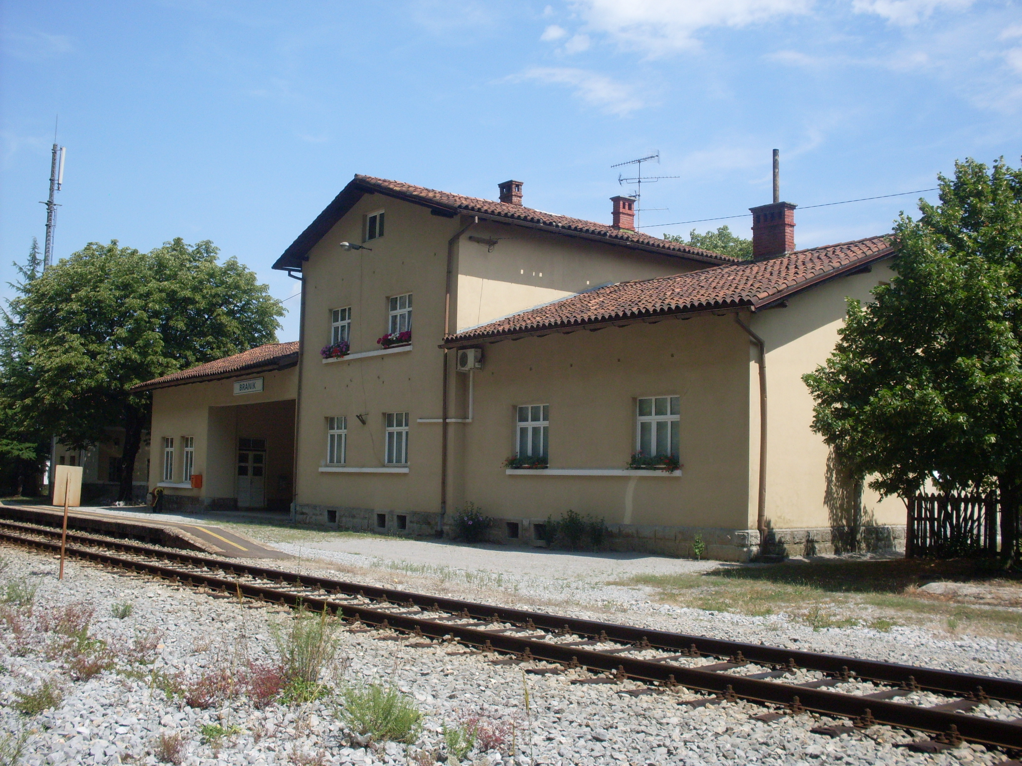 Railway halt in Branik